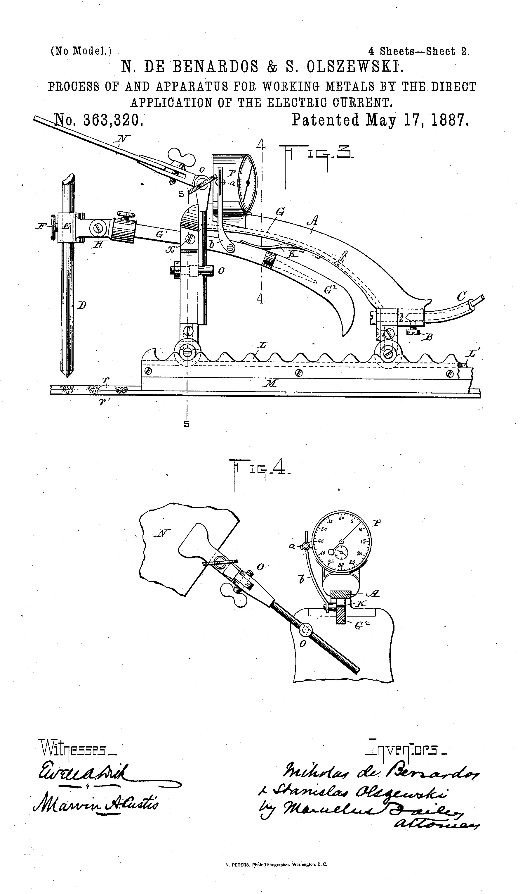 Nikołaj Benardos, Stanisław Olszewski: "Process of and apparatus for working metals by the direct application of the electric current" patent nr 363 320. Washington: United States Patent Office, 17 may 1887.